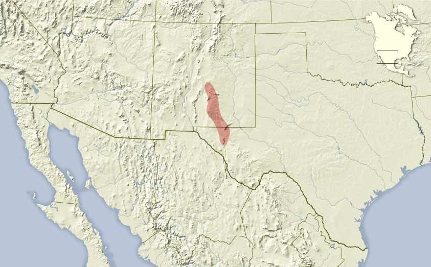 Distribution map of the gray-footed chipmunk